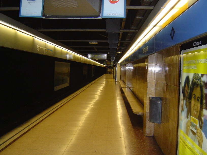 Verdaguer L5 metro station in Barcelona.